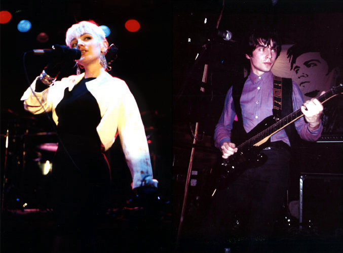 The Primitives 1988 concert